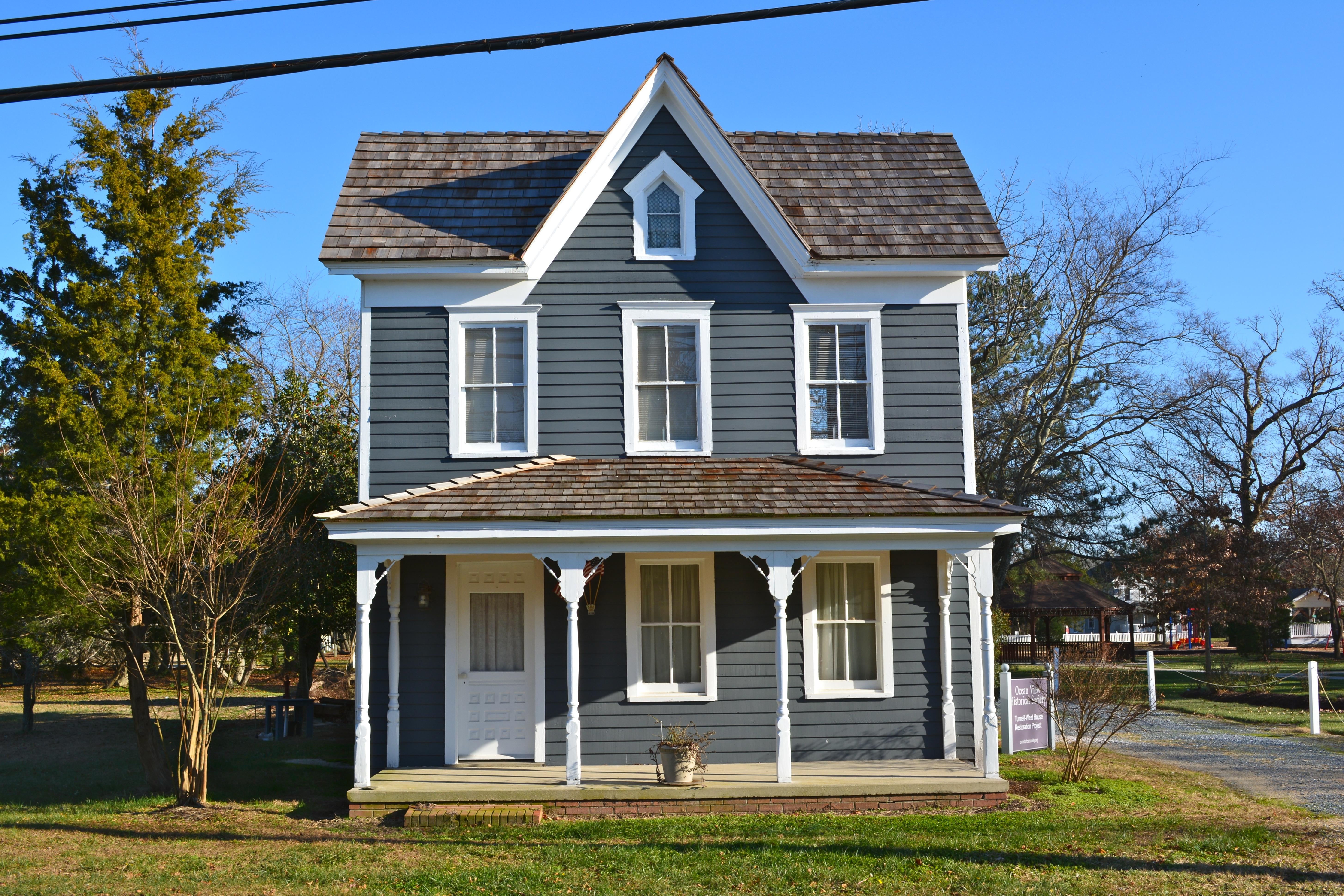 Tunnell-West House, listed on the NRHP on July 3, 2012. Located at 39 Central Ave., Ocean View, Sussex County, Delaware